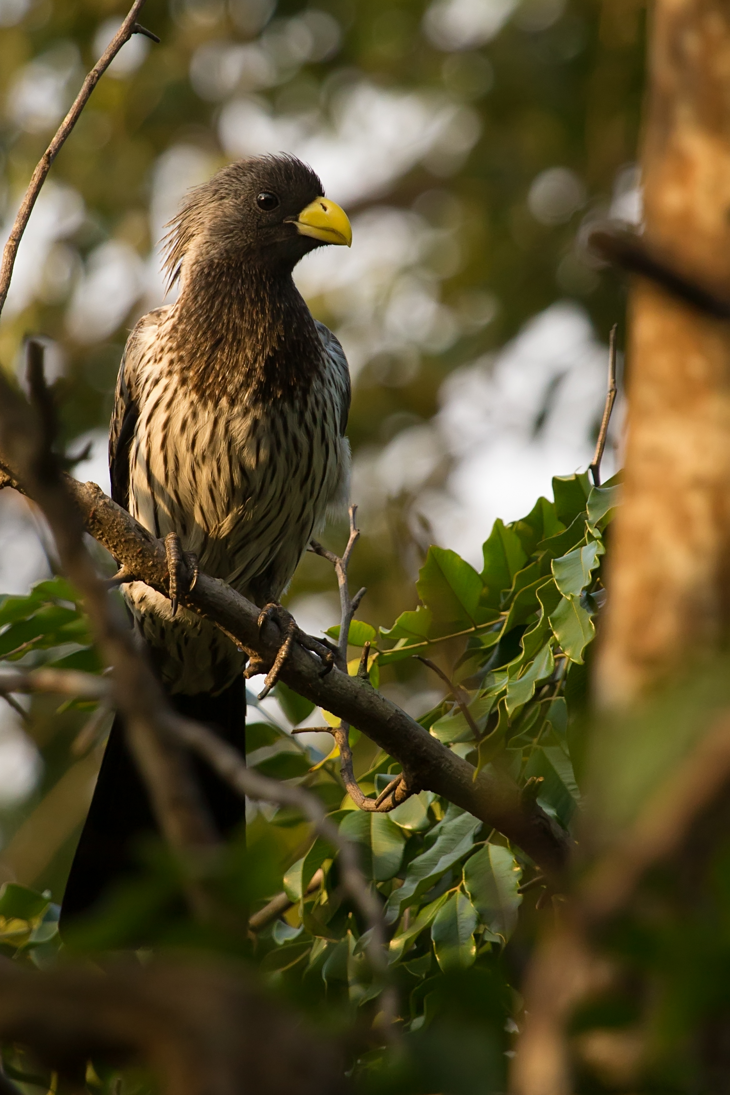 A Western Grey Plaintain Eater at University of Ghana, Legon, Greater Accra Region, Ghana